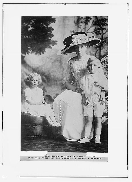 Queen Victoria Eugenia of Spain with her two eldest children ca. 1912.